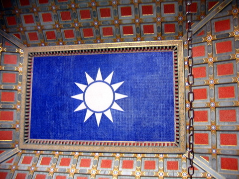 An image uploaded toen:Sun Yat-sen Mausoleum by wiki user Ccchiang, who has put it under public domain.